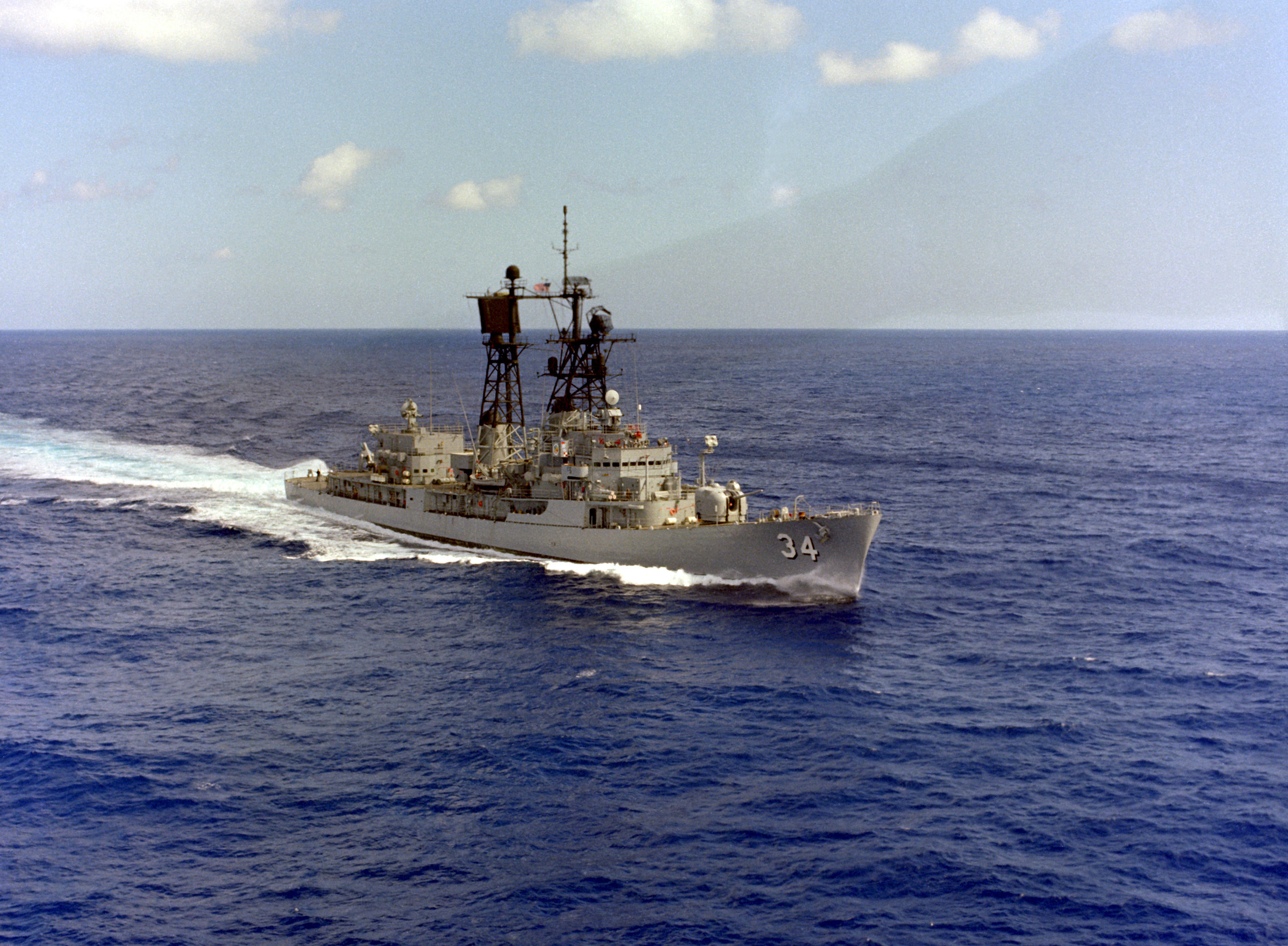 The U.S. Navy the guided missile destroyer USS Somers (DDG-34) underway, circa in the early 1980s. Note: the date given "1 January 1993" has to be incorrect, as Somers was already decommissioned on 19 November 1982. Due to the QE-82 satellite antennas visible fore and aft, the photo was probably taken in the early 1980s.